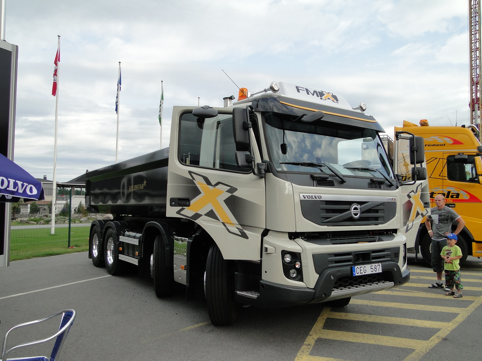 Volvo FMX